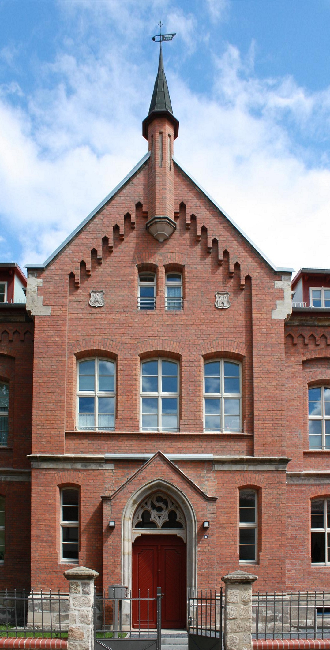 2=Building in Quedlinburg / Germany Altetopfstraße 22 in Quedlinburg